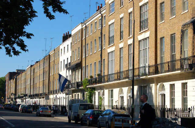 East side of Dorset Square, Marylebone